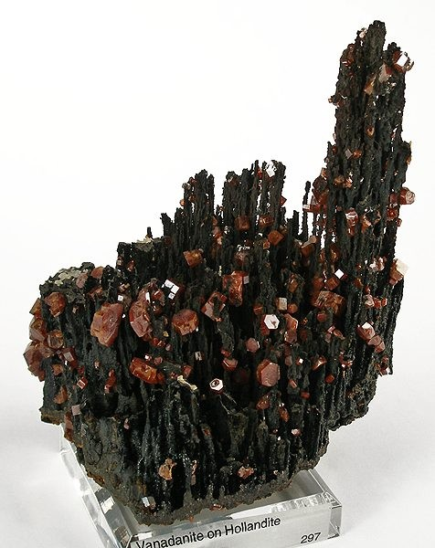 Vanadinite, Goethite Locality: Taouz, Er Rachidia Province, Meknès-Tafilalet Region, Morocco (Locality at ) Size: 9.6 x 8.1 x 5.9 cm. These old pieces came out in the 1970s. This is a really elegant example of the classic form of vanadinite found here, isolated sharp hexagons on contrasting black stalactites. The individual vanadinite crystals reach 5mm in size, typical of this style and association. The matrix is actually goethite.